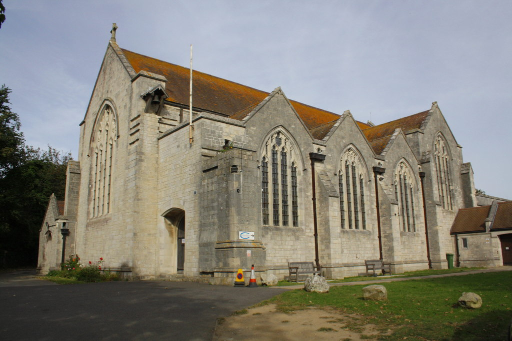 All Saints Church, off Straits, Portland Dorset